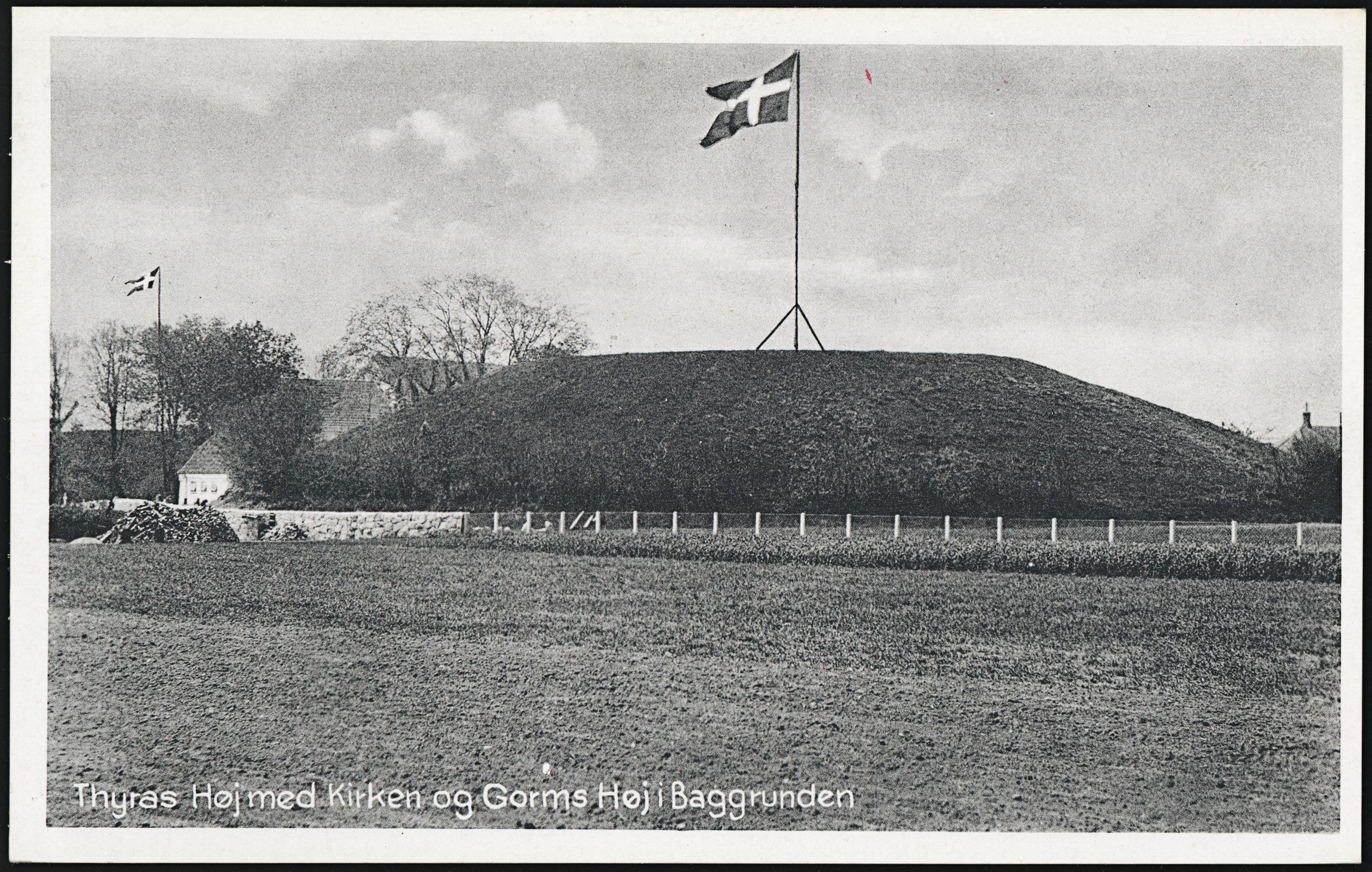 Gorm the olds mound. Around year 1900. Jelling is the small city where Harold Bluetooth had the giant Jelling stones erected to honour his parents and to tell that he turned the Danes to Christianity.